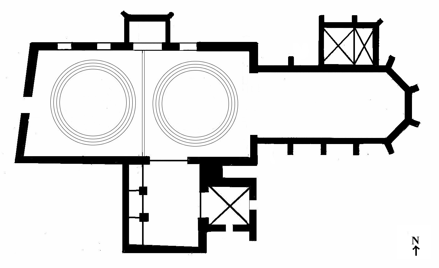 Heilbronn+Deutschordensmünster+als+barocke+Kirche+um+1721.PNG